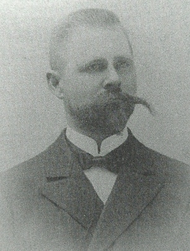 Picture of John Kjellman, Swedish editor